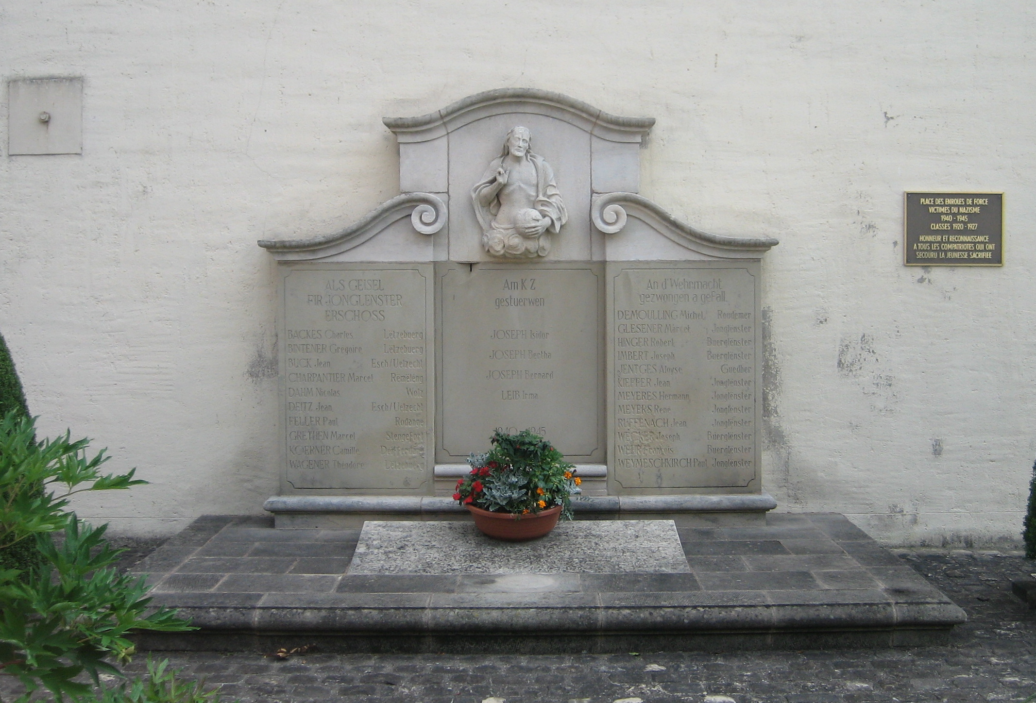 World War II Memorial in Junglinster, Luxembourg, nearby the church. The first row lists people killed as hostages by the Germans, the middle one those who were killed in concentration camps, the last those who were forced into the Wehrmacht and died.